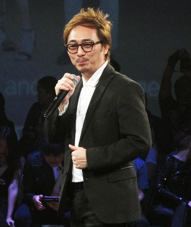 Ronnie Cruz, CEO Art Personas